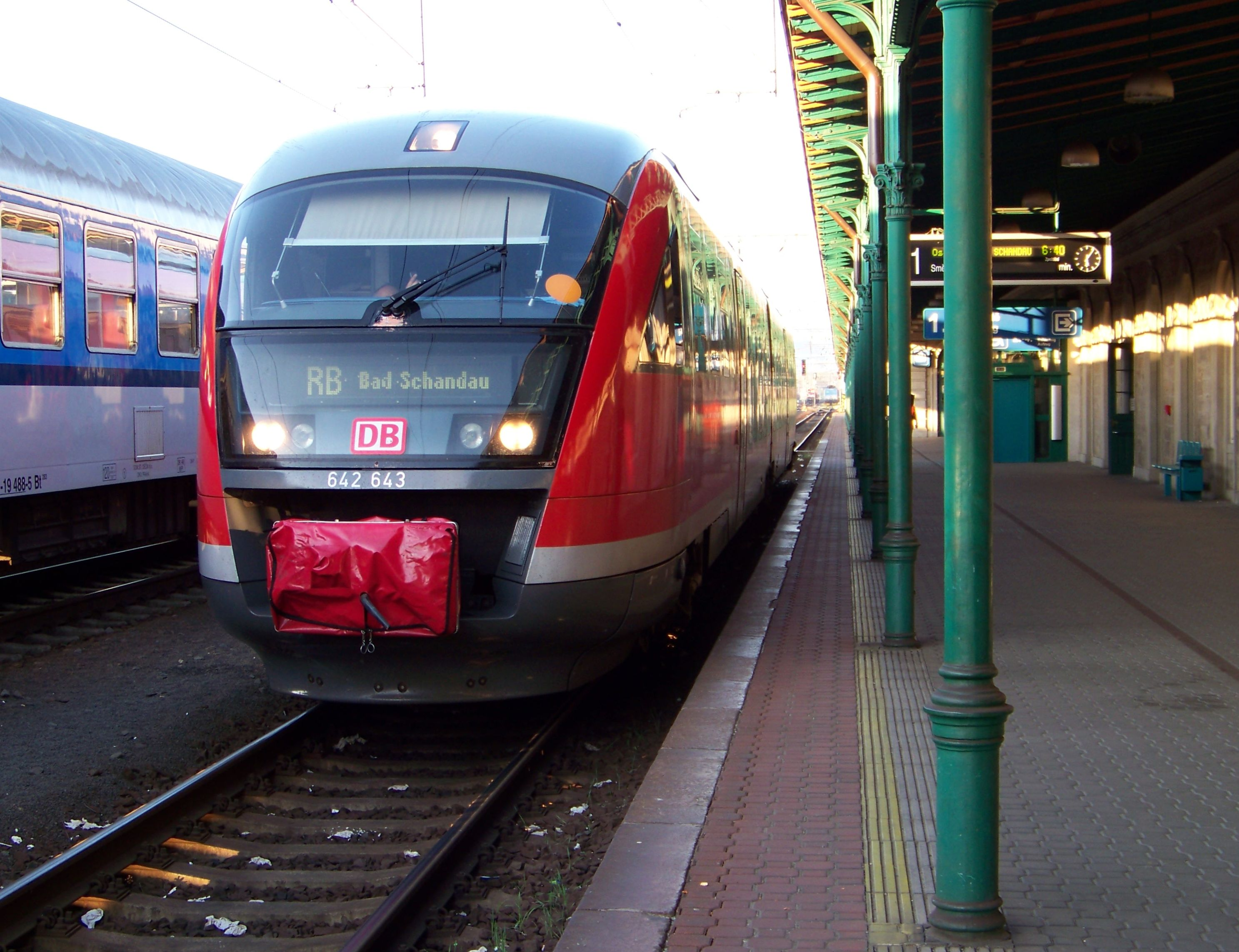 Děčín, Děčín District, Ústí nad Labem Region, the Czech Republic. Siemens Desiro of DB Regio in direction Bad Schandau. - OpenStreetMap(Info)